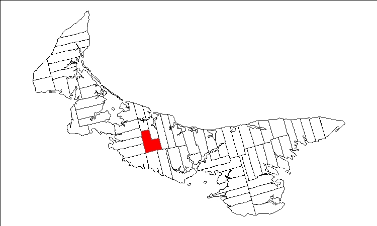 Public domain map of Prince Edward Island created by User:Plasma east with data courtesy of Geogratis, modified to show townships. Released under GFDL (self).